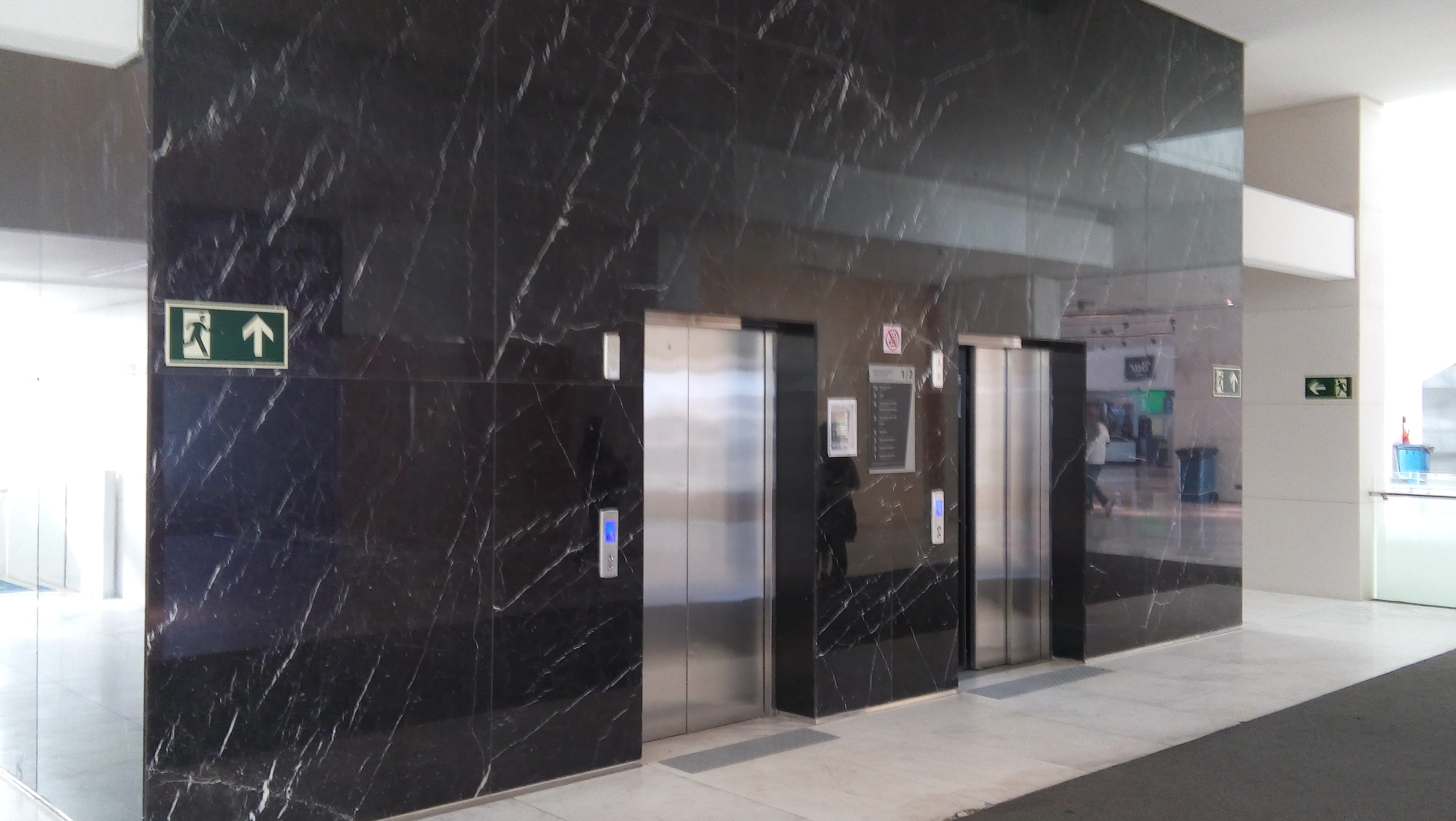 Lifts the west building of the Arena Corinthians